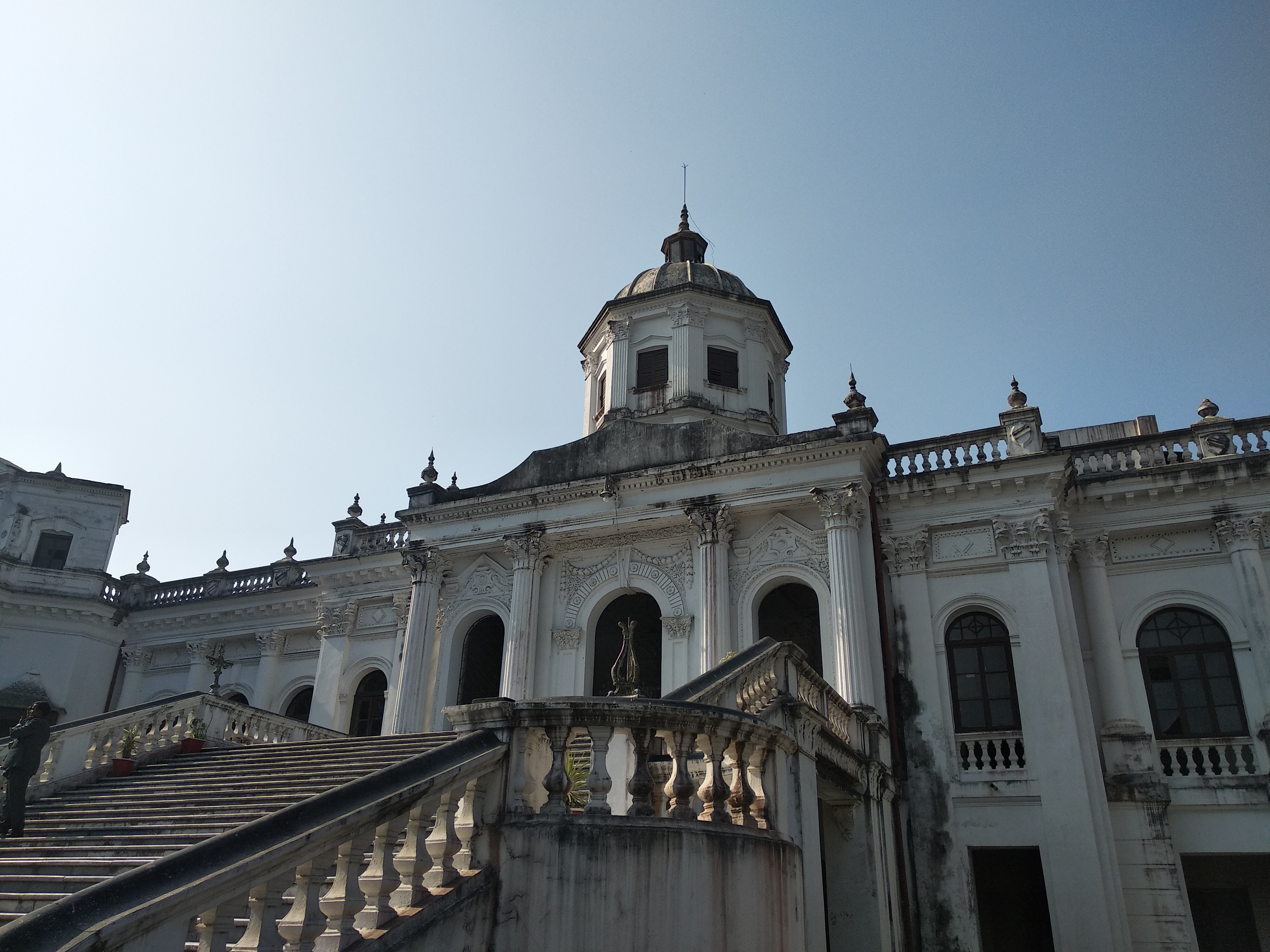 Front view of Tajhat Landlord's Palace in Rangpur, Bangladesh This photo has been taken in the country: Bangladesh